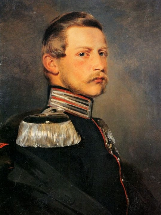 Friedrich Wilhelm, Crown Prince of Prussia, later Friedrich III, Emperor of Germany